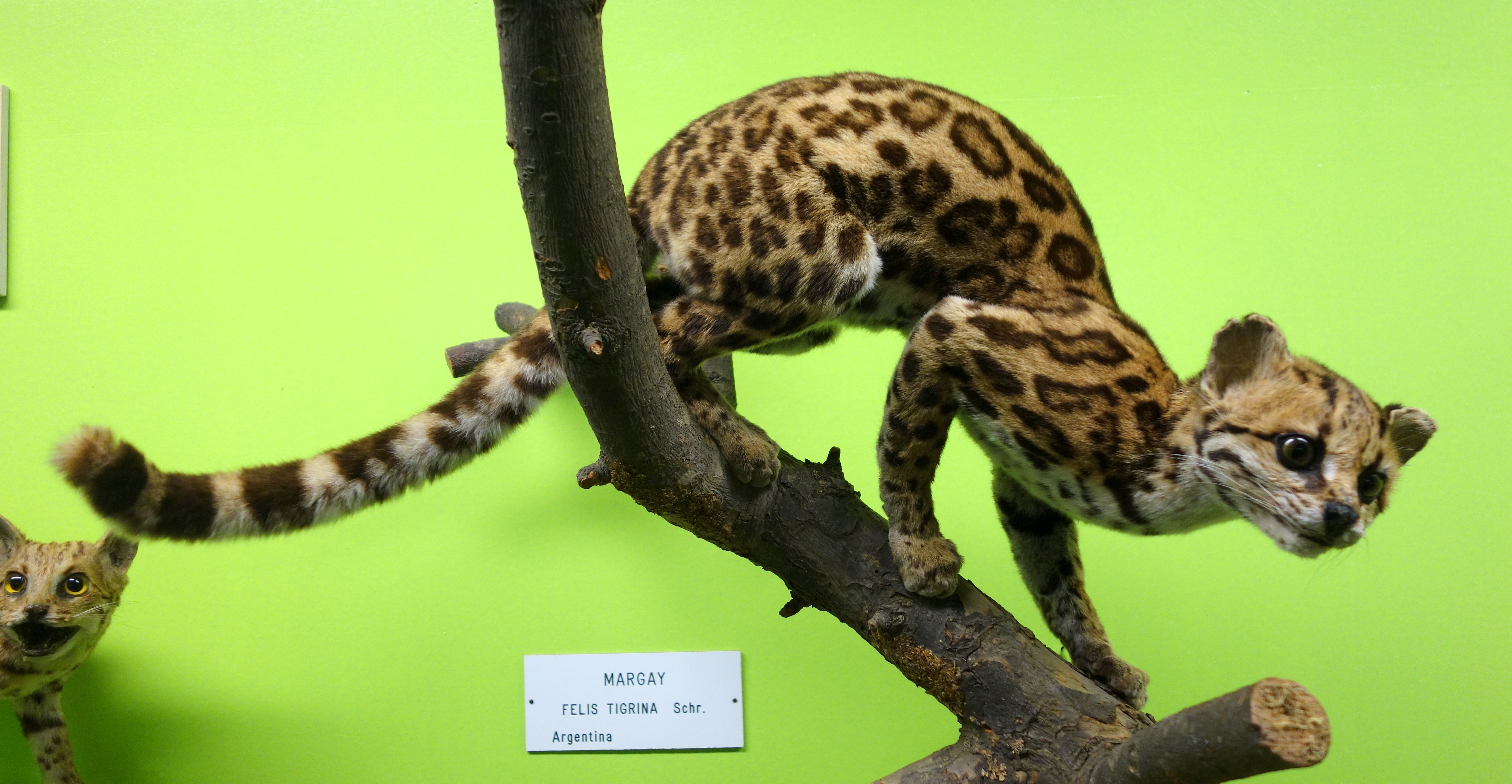 Exhibit in the Museo Civico di Storia Naturale di Genova, Via Brigata Liguria, 9, 16121, Genoa, Italy.